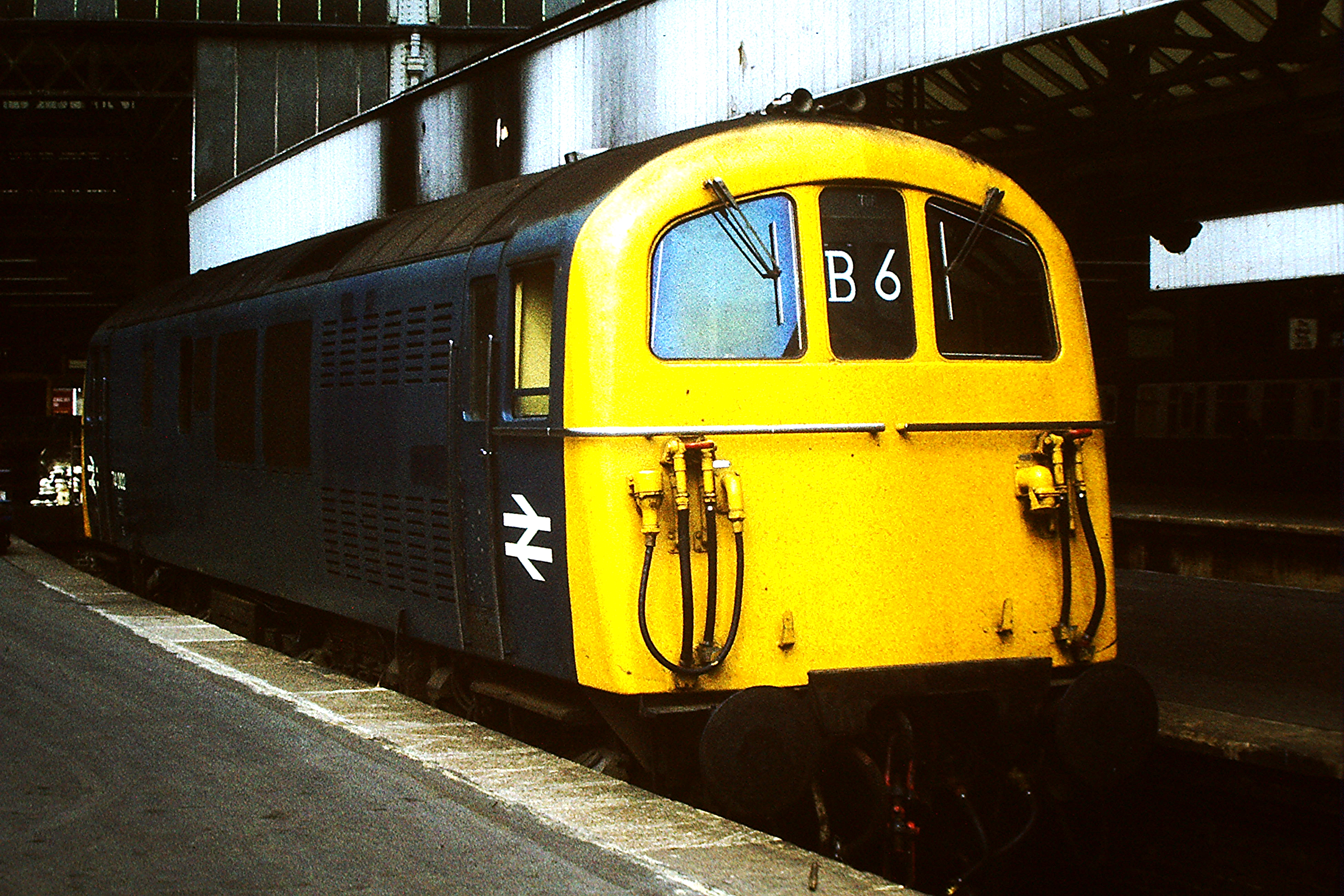 74002 at waterlooo